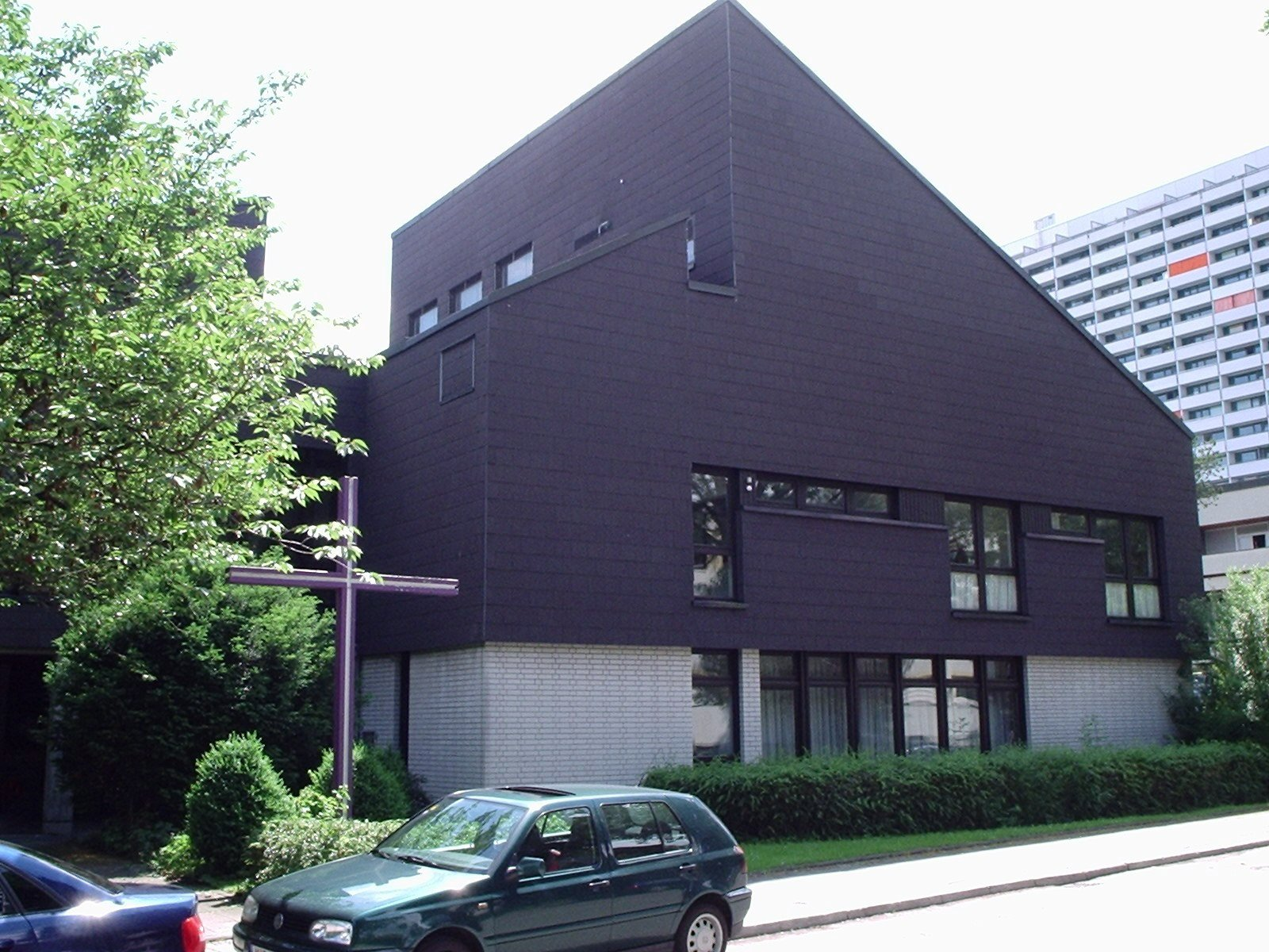 North entrance of the ecumenical building hosting the churches St. Ansgar (Roman-Catholic) and Petruskirche (Lutheran) in Parkstadt Solln, Munich, Germany.